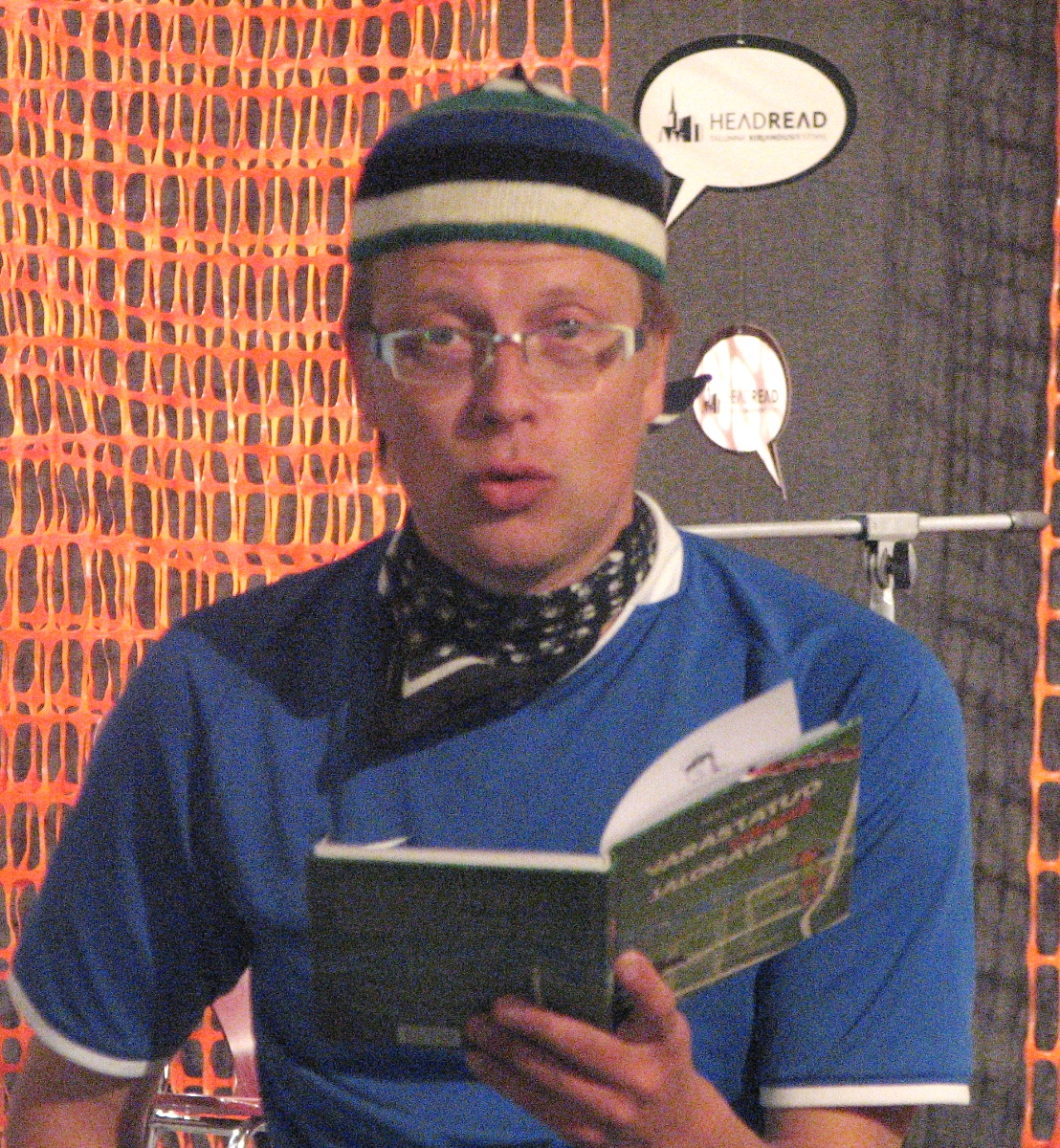 Mika Keränen reading some lines from his book during literature festival HeadRead